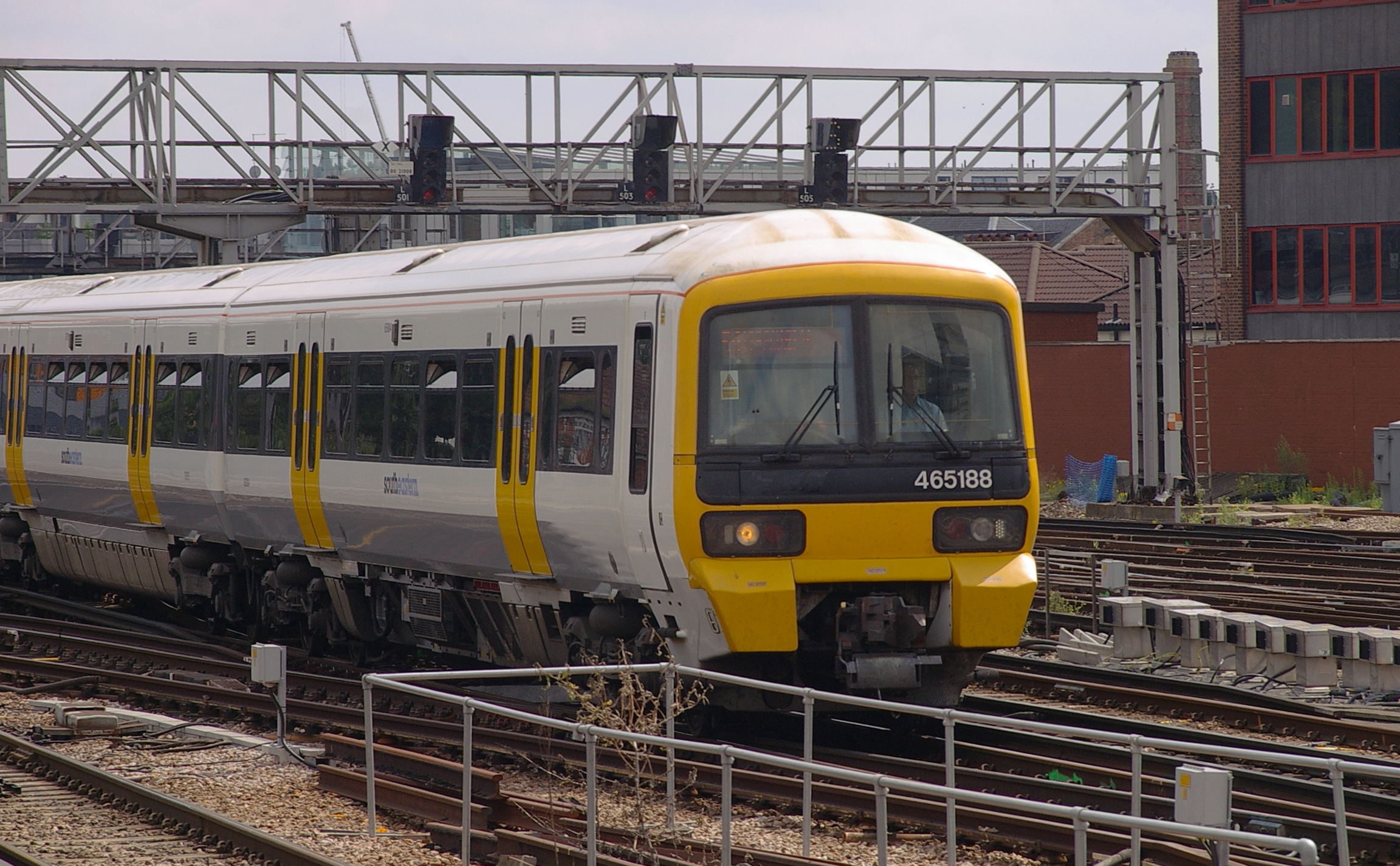 Southeastern 465188 arrives at London Bridge railway station.